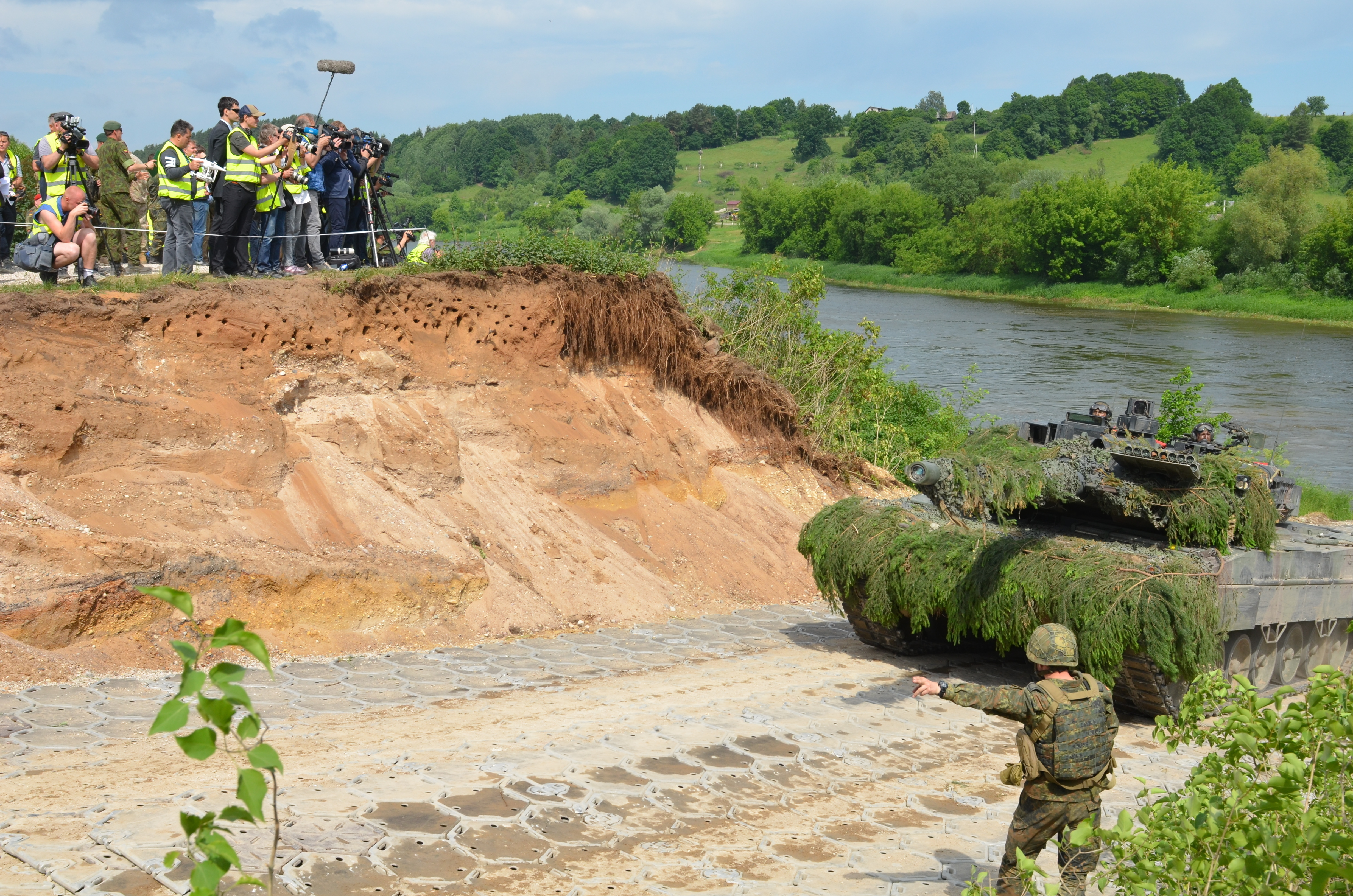 A German Army Soldier directs military vehicles onto land during one of the largest combined exercises in Lithuania, the Suwalki Gap River Crossing, as media observe the event, June 20. The river crossing is a part of Exercise Iron Wolf, a component of Saber Strike 17, conducted by NATO's Enhanced Forward Presence Battle Groups Poland and Lithuania. The Battle Groups conducted operations and tested their ability to mobilize quickly across the river, overcoming terrain.